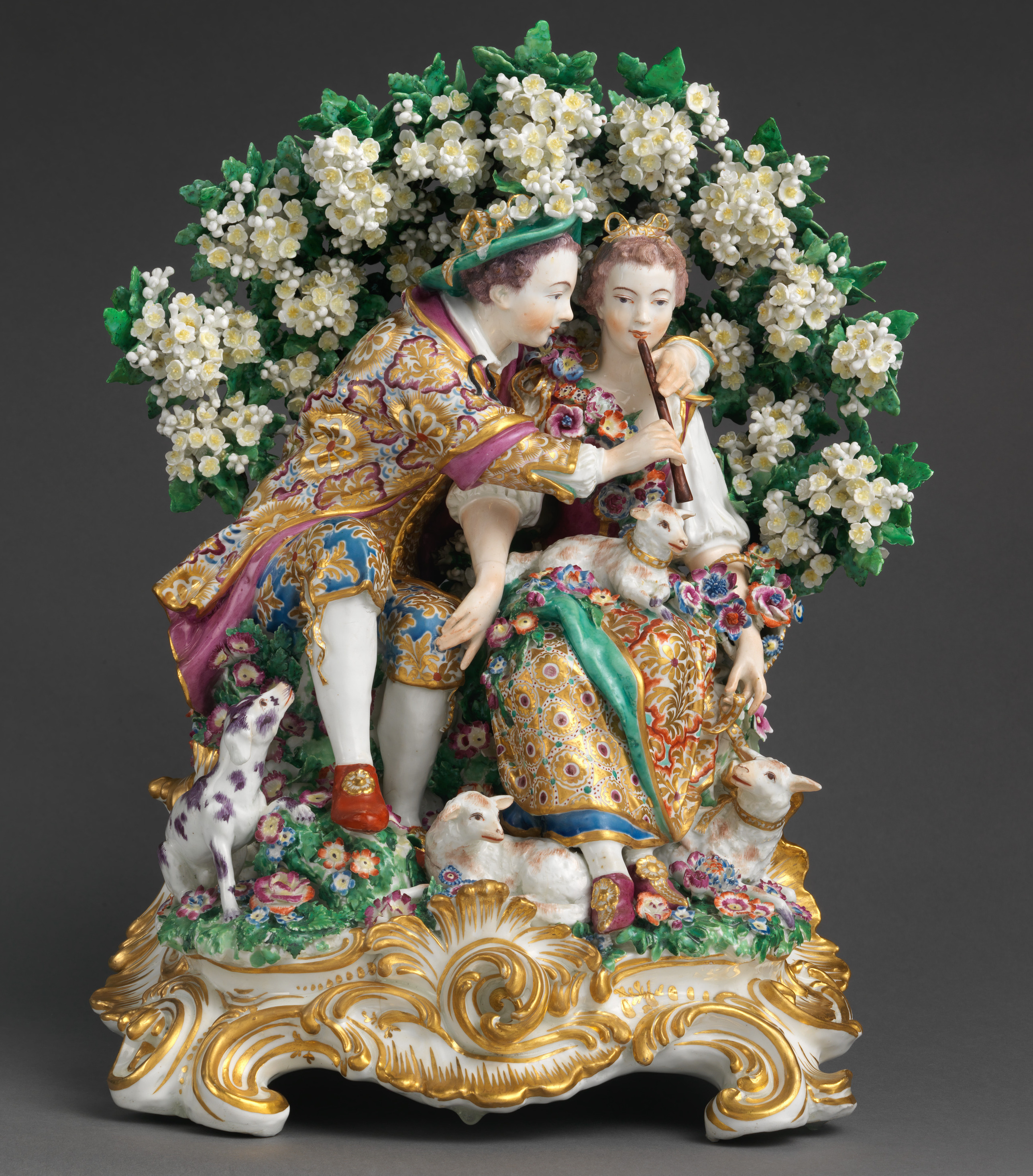 British, Chelsea; Group; Ceramics-Porcelain